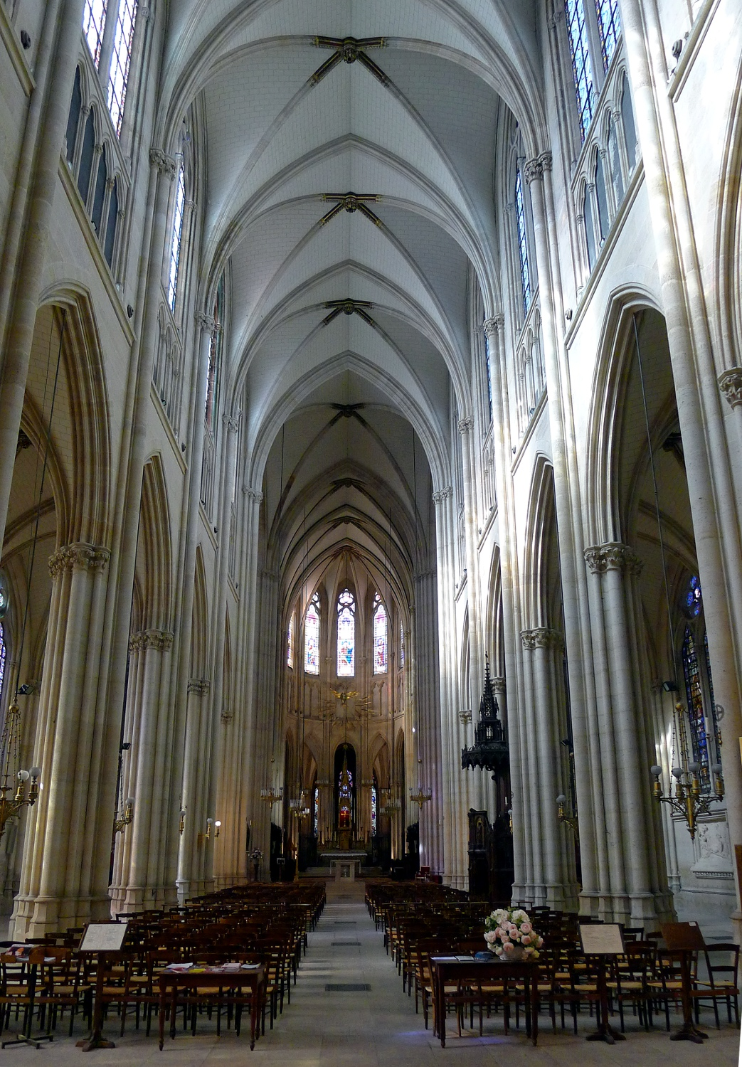 Sainte-Clotilde church - Paris